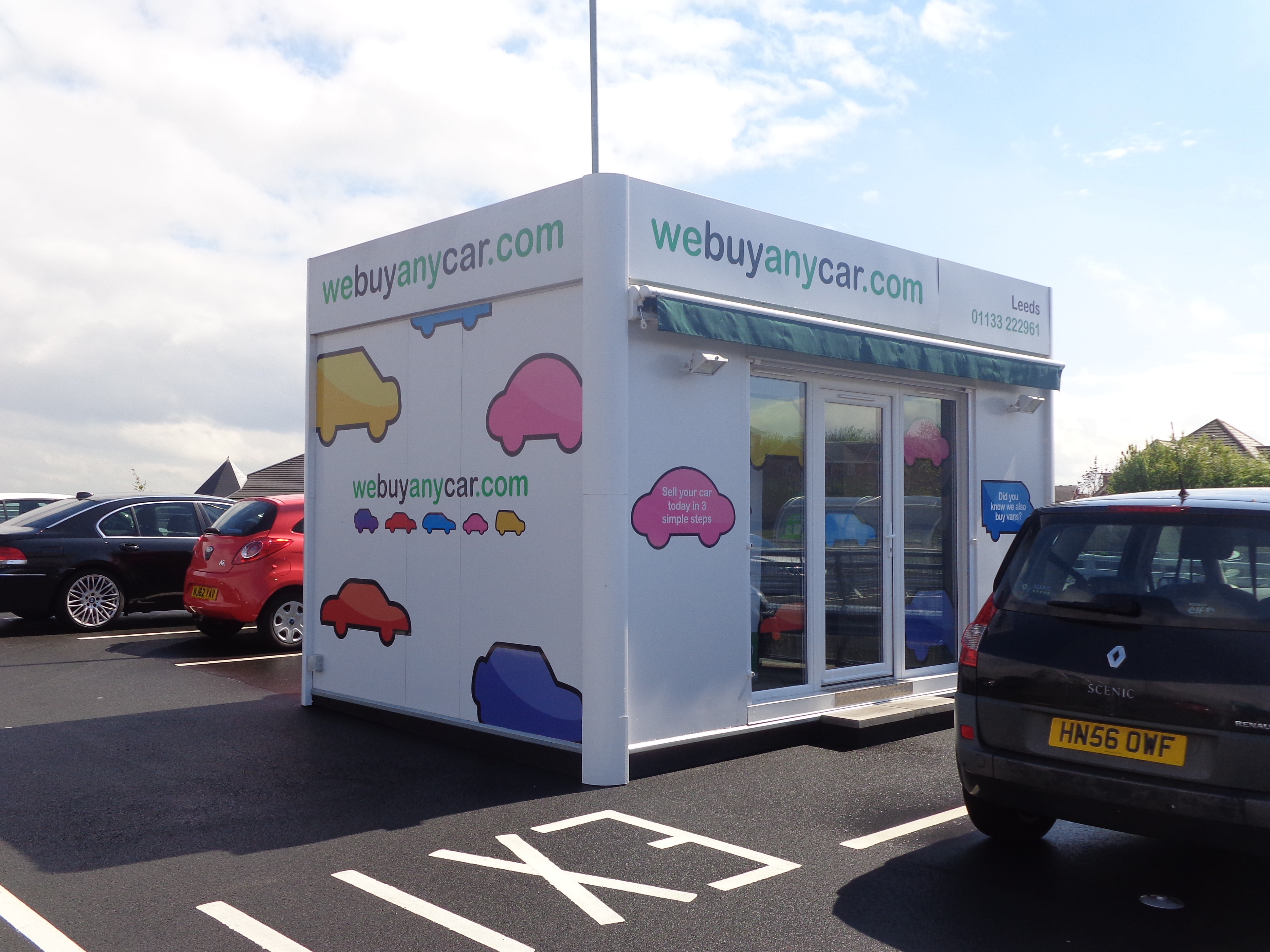 We Buy Any Car dot com office, Middleton, Leeds, West Yorkshire. Taken on the afternoon of Sunday the 3rd of May 2015.